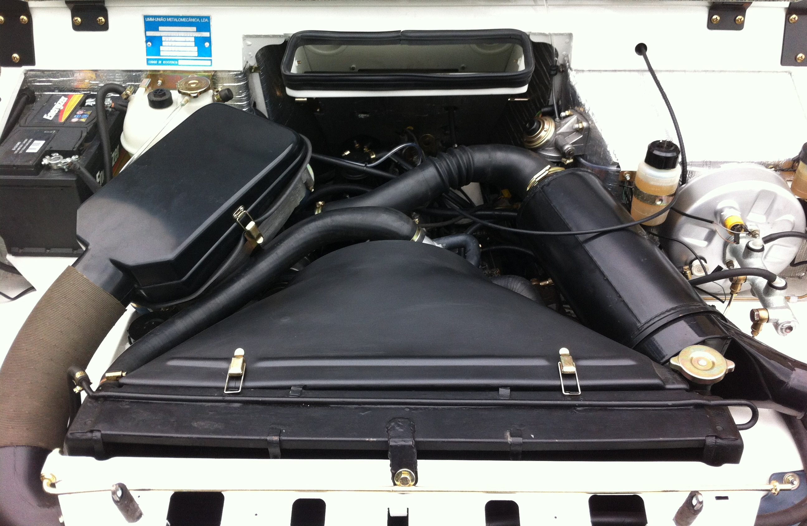 UMM Alter turbo 1992-1994 motor